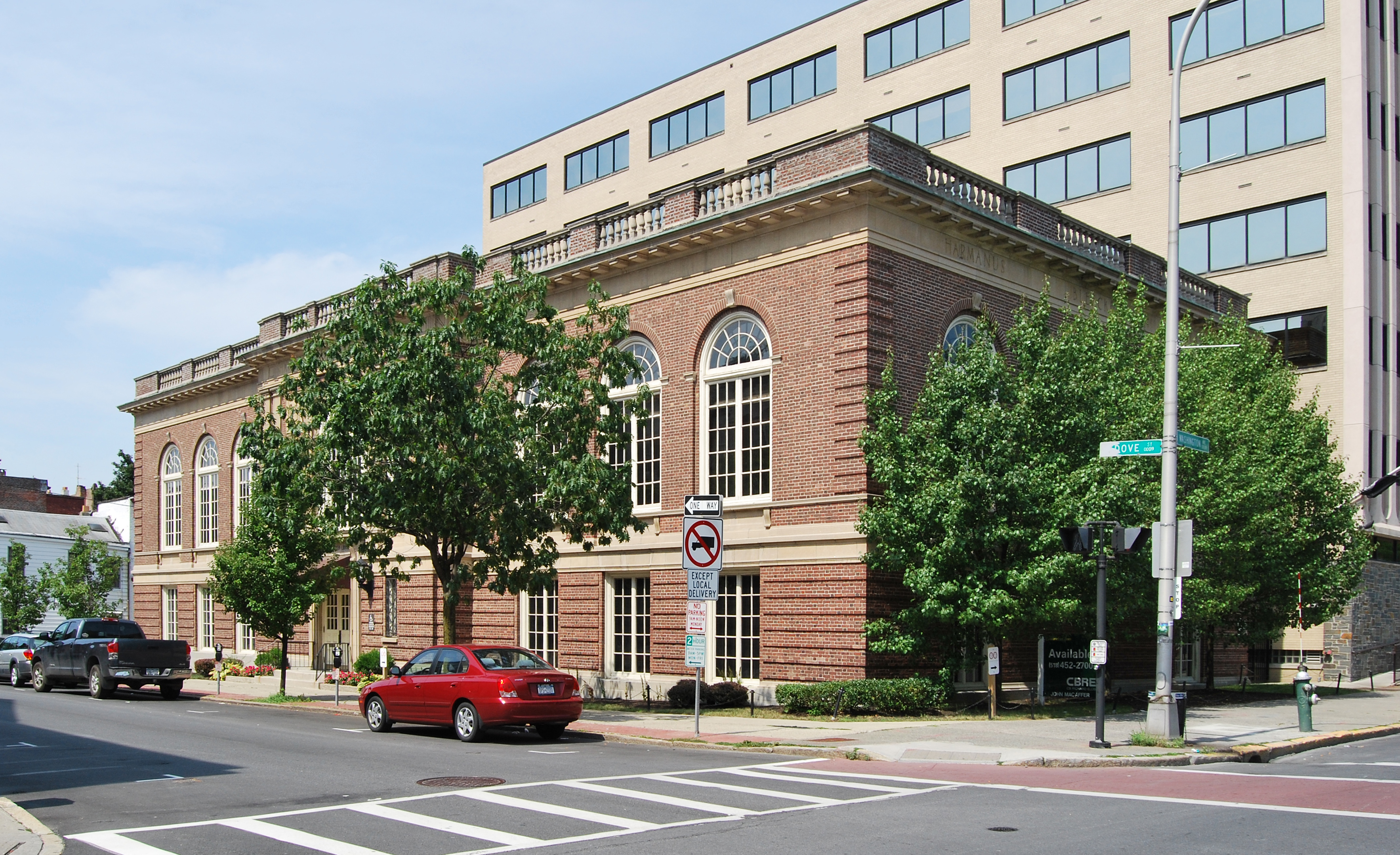 Harmanus Bleecker Library, no private apartments, in Albany, New York